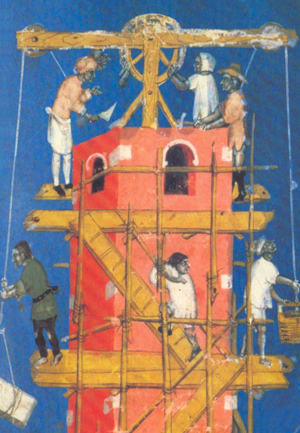 Construction of the Tower of Babel, from the Weltchronik.